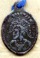 Photograph of a medal given out to his visitors by the Zulu king Cetewayo